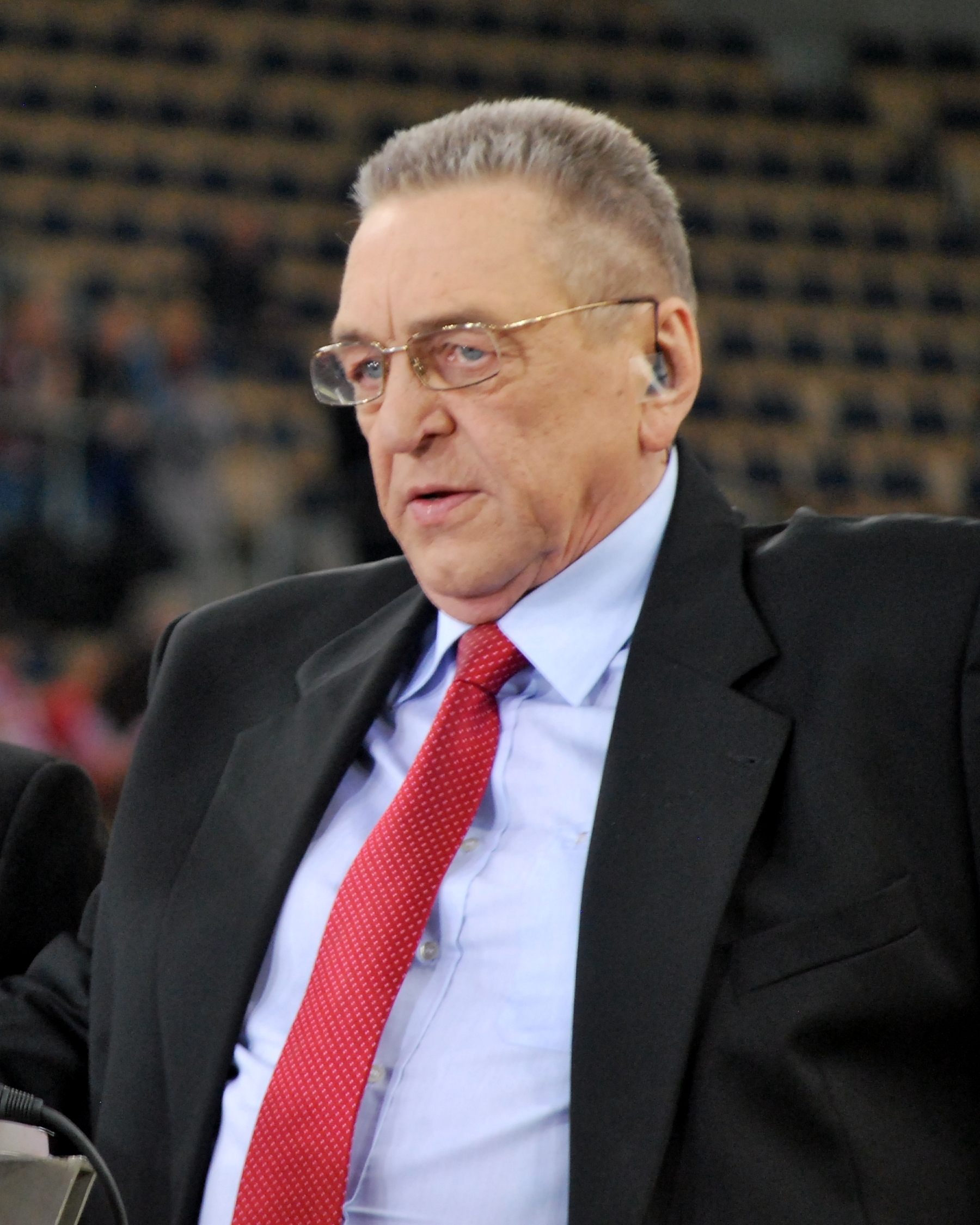 FIVB World Championship European Qualification Women Łódź January 2014. Andrzej Niemczyk - former volleyball coach from Poland